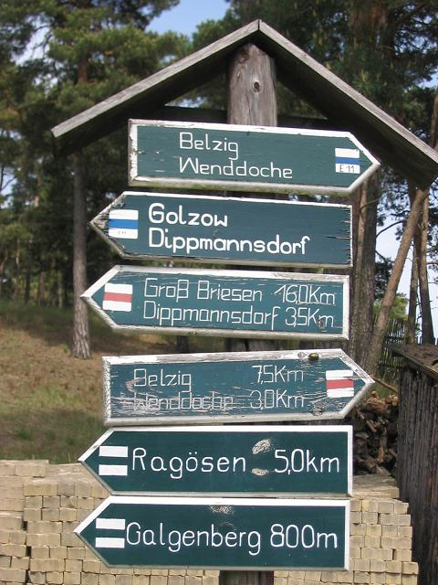 En route to Galgenberg (gallows hill, 118 metres) in the landscape High Fläming nearby Lütte, a village (part) of the town Belzig in Brandenburg